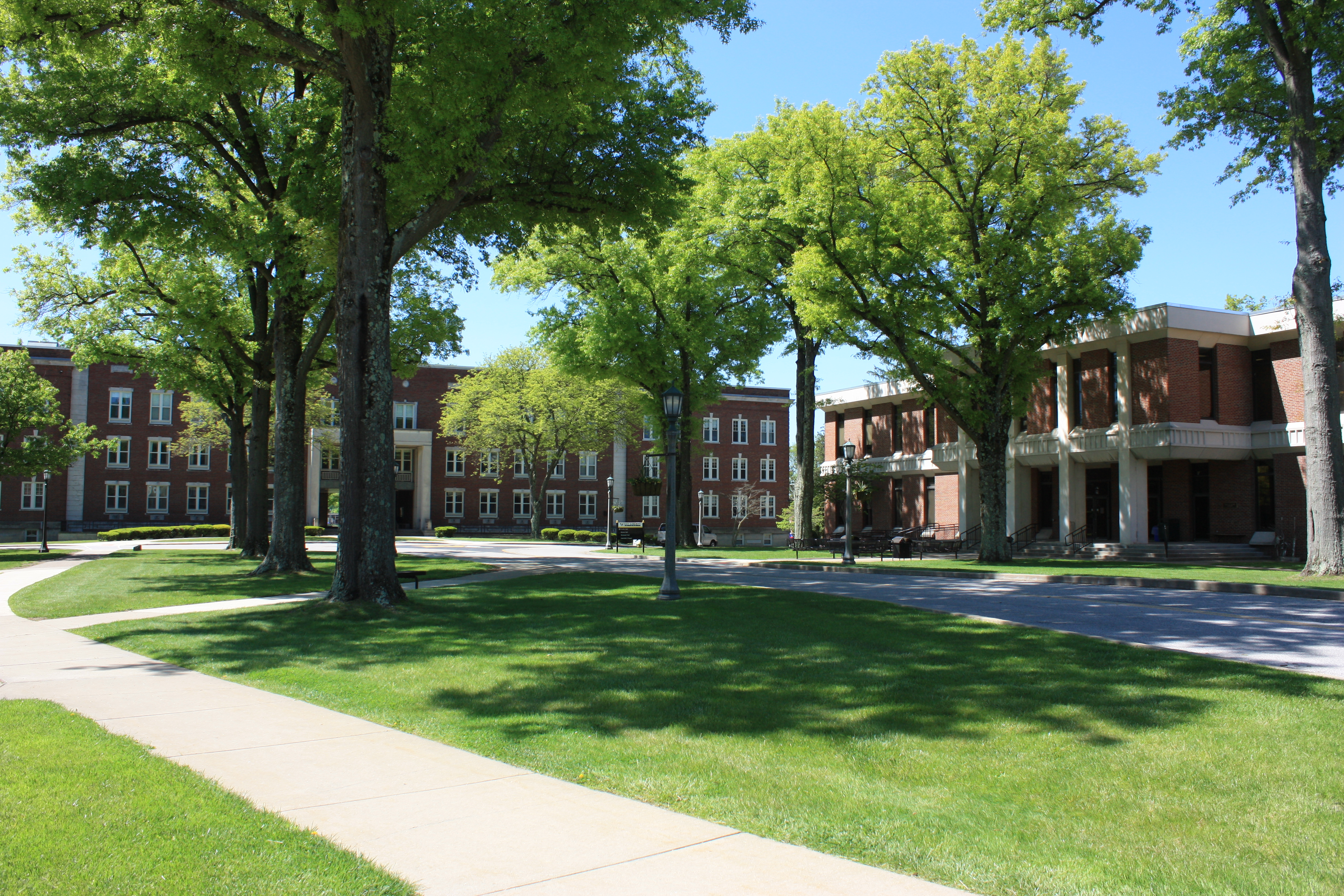 The road from the main entrance to West Liberty University, showing Main Hall and Paul N Elbin Library.